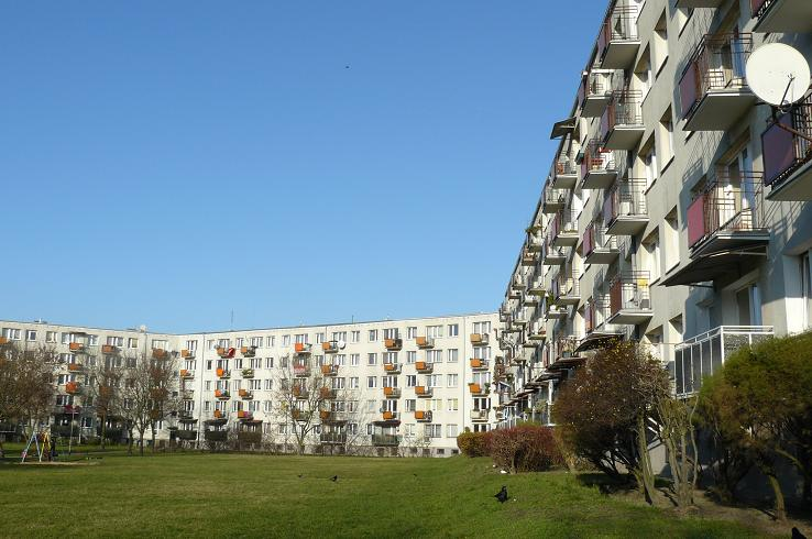 Poznan - Winiary District.